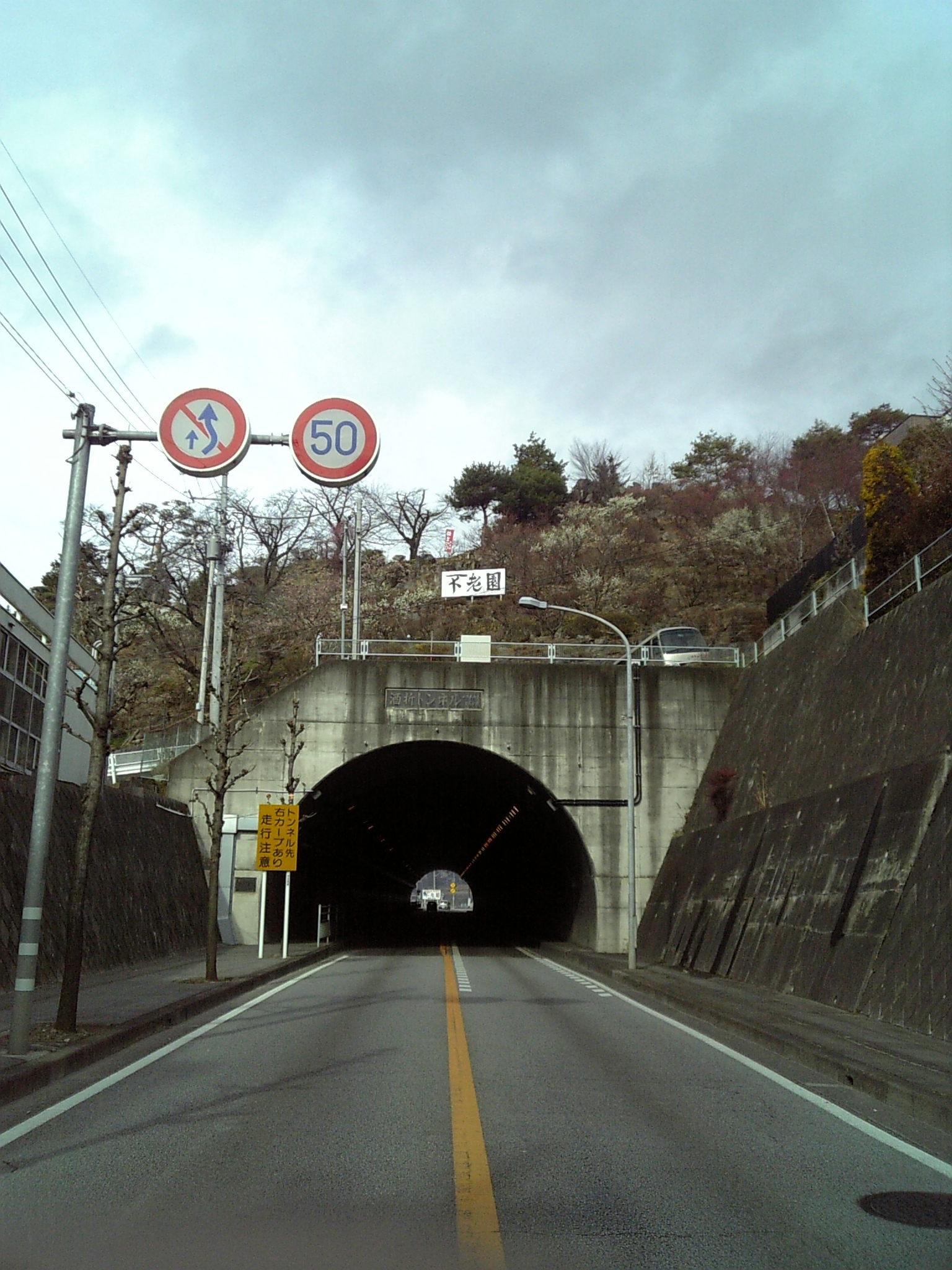 Furoen-plum garden On a tunnel